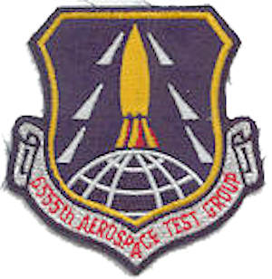 6555th Aerospace Test Group Emblem